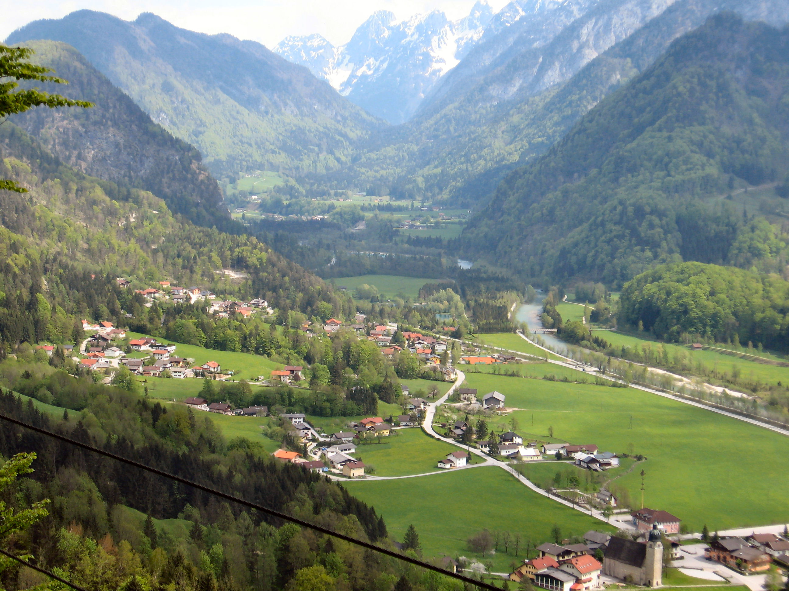 Scheffau am Tennengebirge - vom Mehlstein gesehen